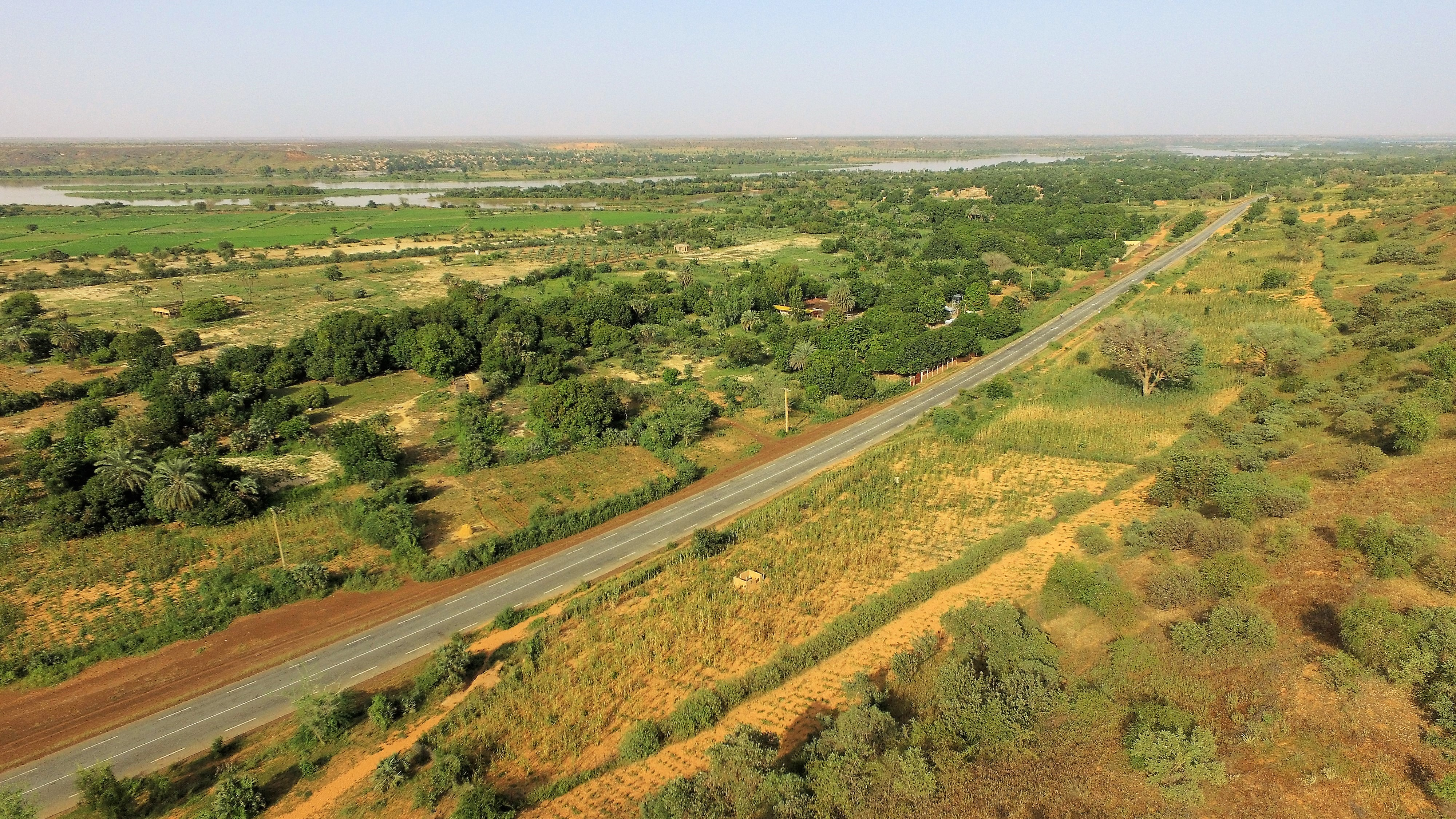 The National Road No.4 in Niger runs from Niamey to Tera and is seen here 1 km west of the village of Sarando Béné, looking toward Niamey. In the distance is the river Niger and on its other side the village of Boubon (left, far away).